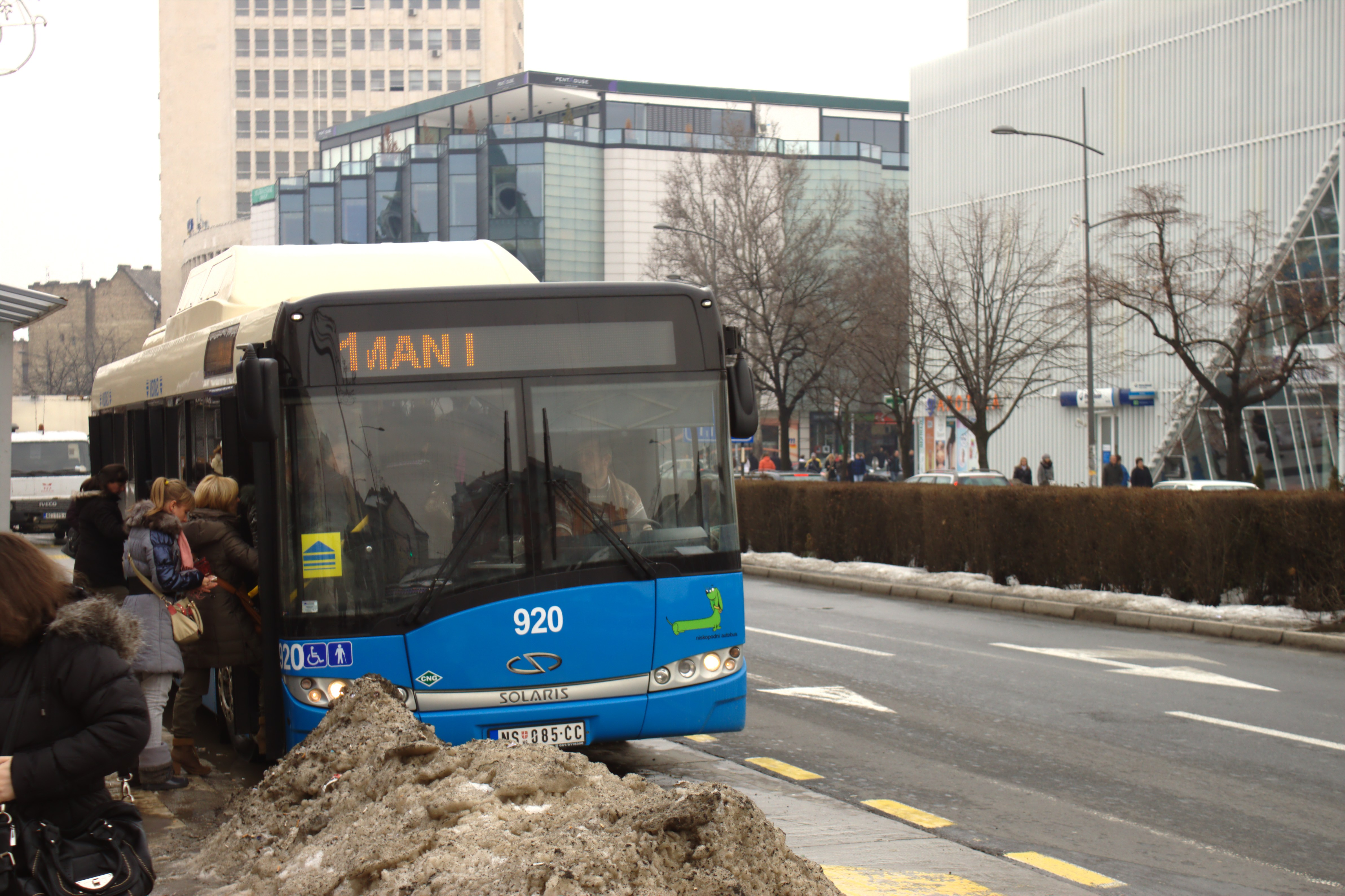 Solaris Urbino 12 CNG bus (#920, reg. NS 085 ĆC) at Uspenska street in Novi Sad, Serbia. Built 2011, JGSP Нови Сад operator.